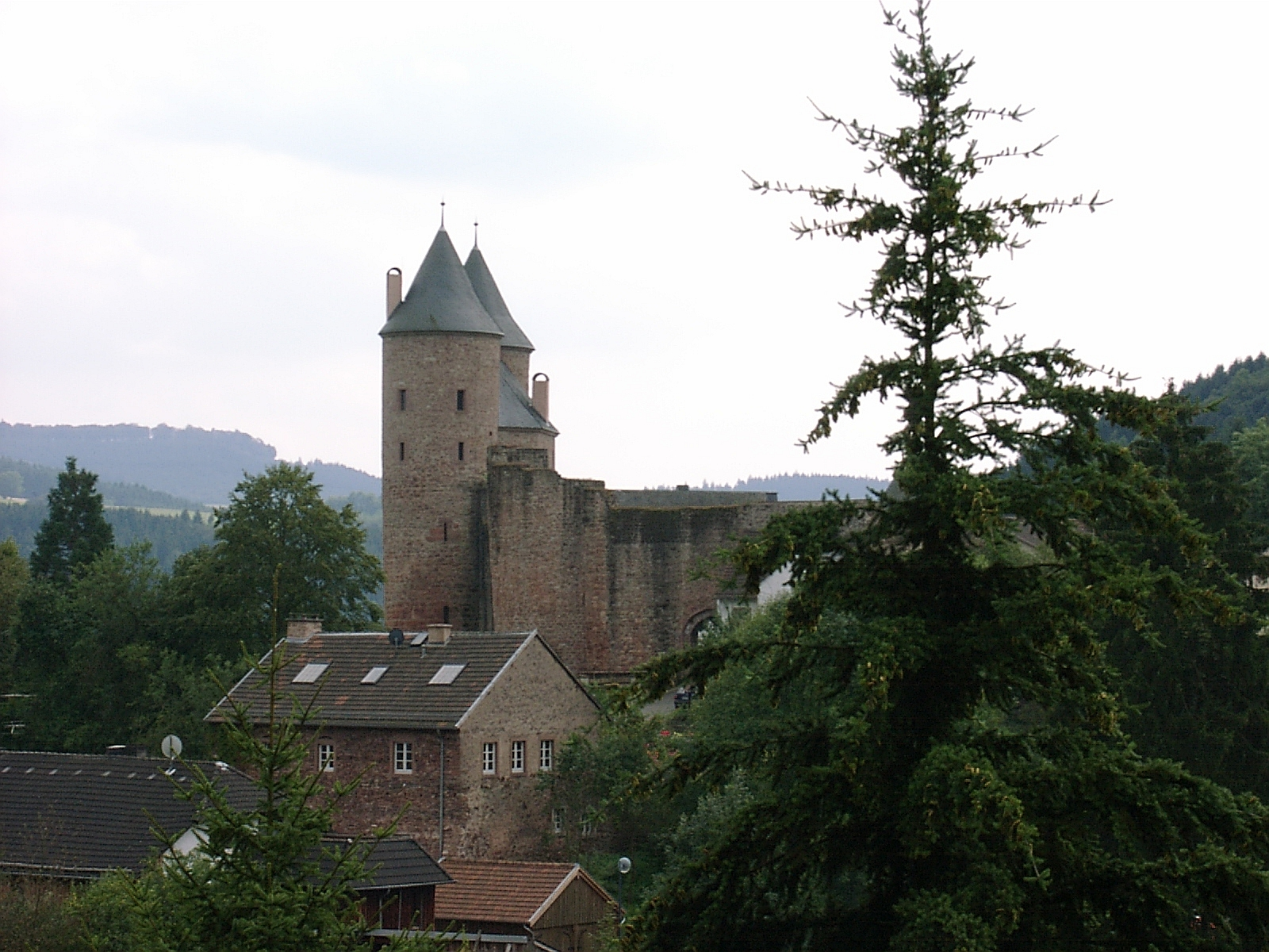 Bertradaburg in Mürlenbach, Germany